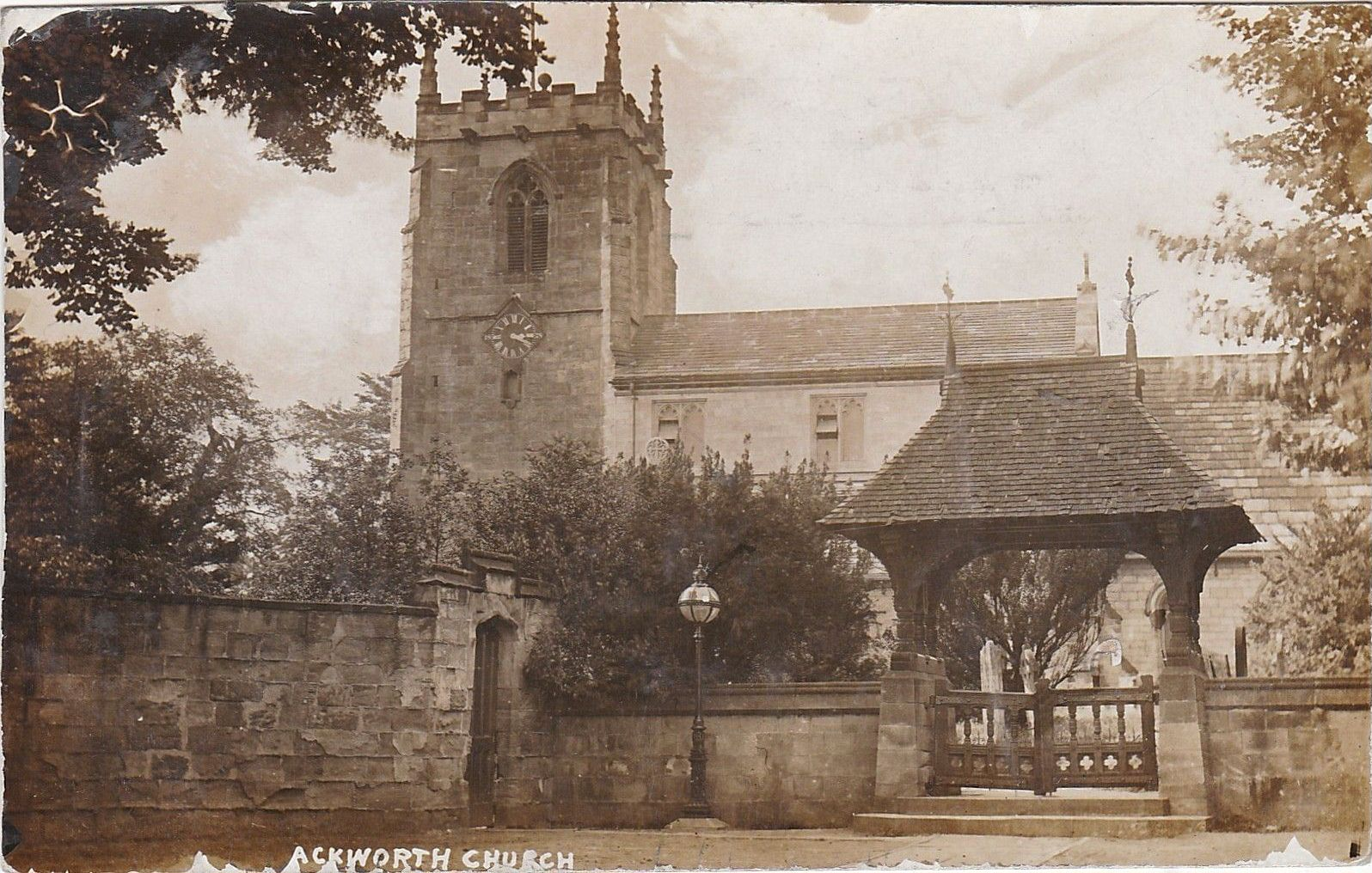 St Cuthbert, Ackworth, West Yorkshire, England. Restored in 1852-54 after a fire. The 15th century tower remains. Some carving by Robert Mawer. Dated by quality of image and type of tinting and the writing on the glass plate.